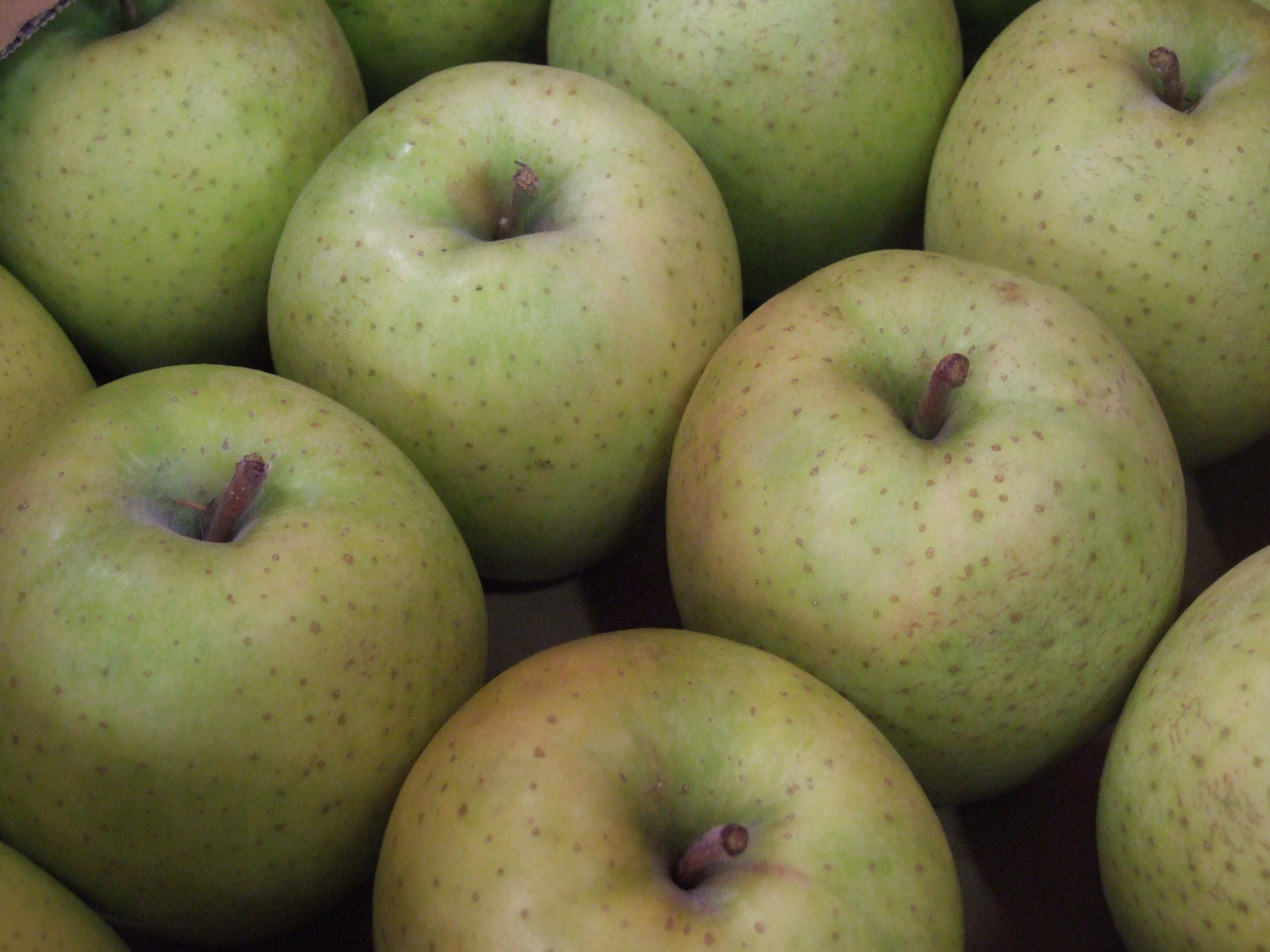 Orin apples, Japan